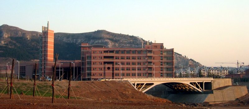 Photograph of the Xinglongshan Campus of Shandong University in Jinan, Shandong Province, China, with still ongoing construction in April 2005.